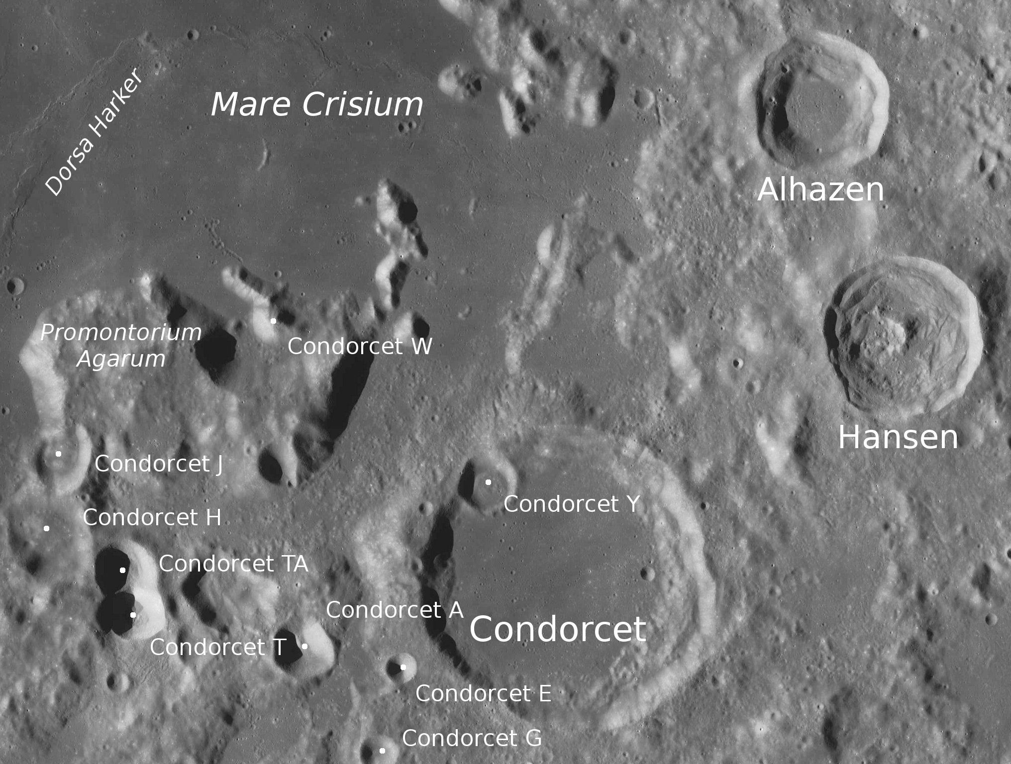 Crater Condorcet with Mare Crisium (detail of LRO - WAC global moon mosaic; Mercator projection)